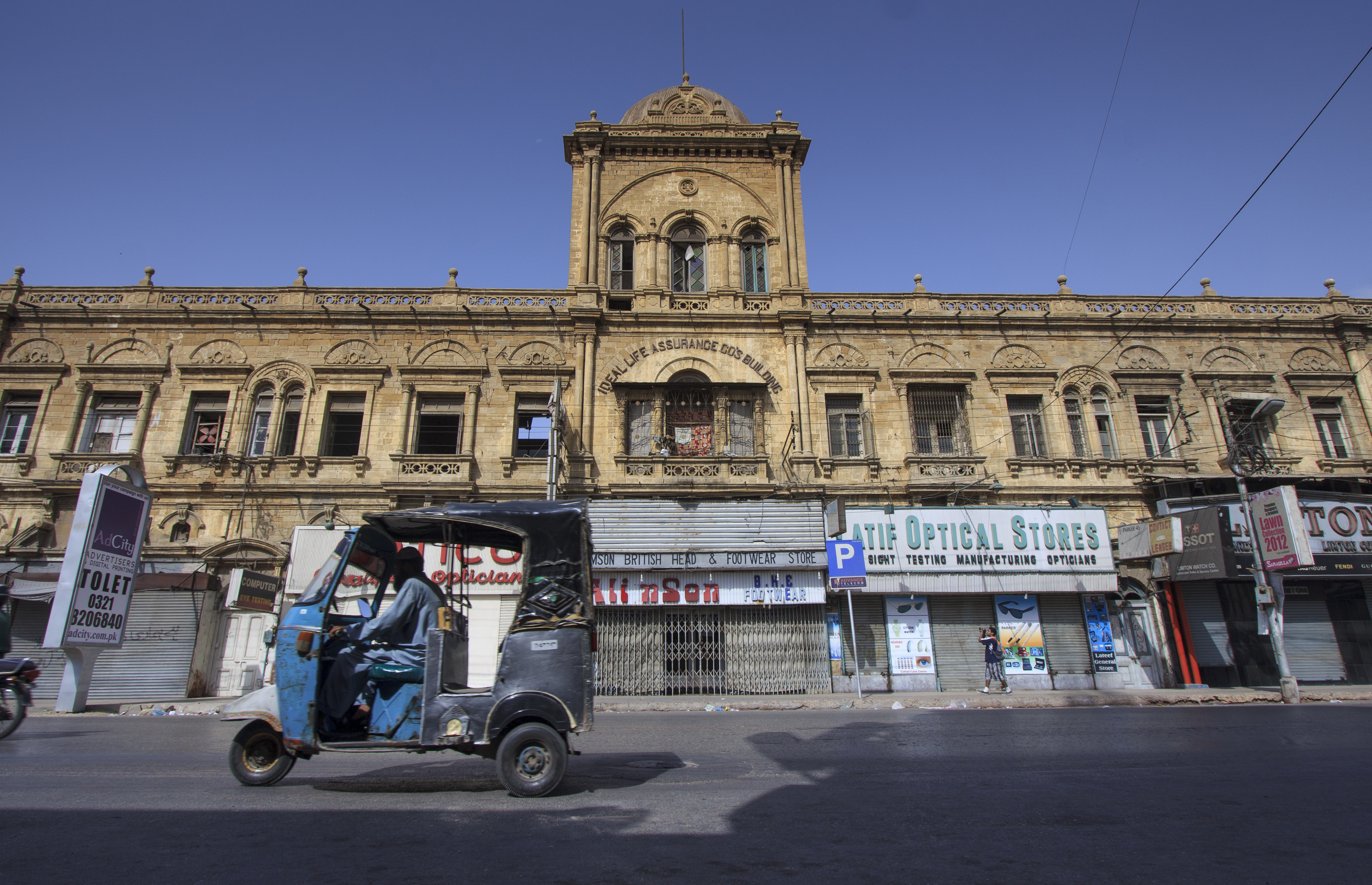 Ilaco House This is a photo of a monument in Pakistan identified as the SD-P-164